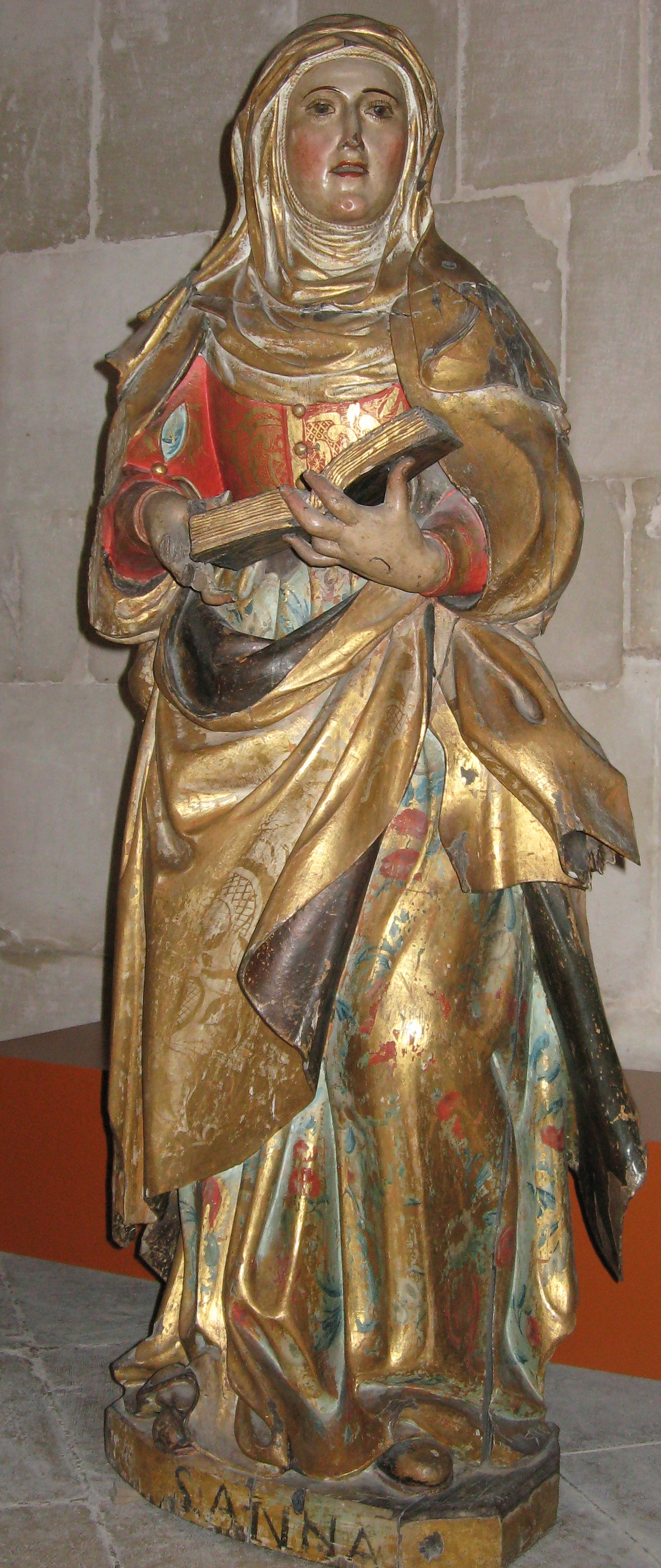 Mosteiro de Alcobaça, altarpiece, St. Anna, School of Alcobaça, 18th century